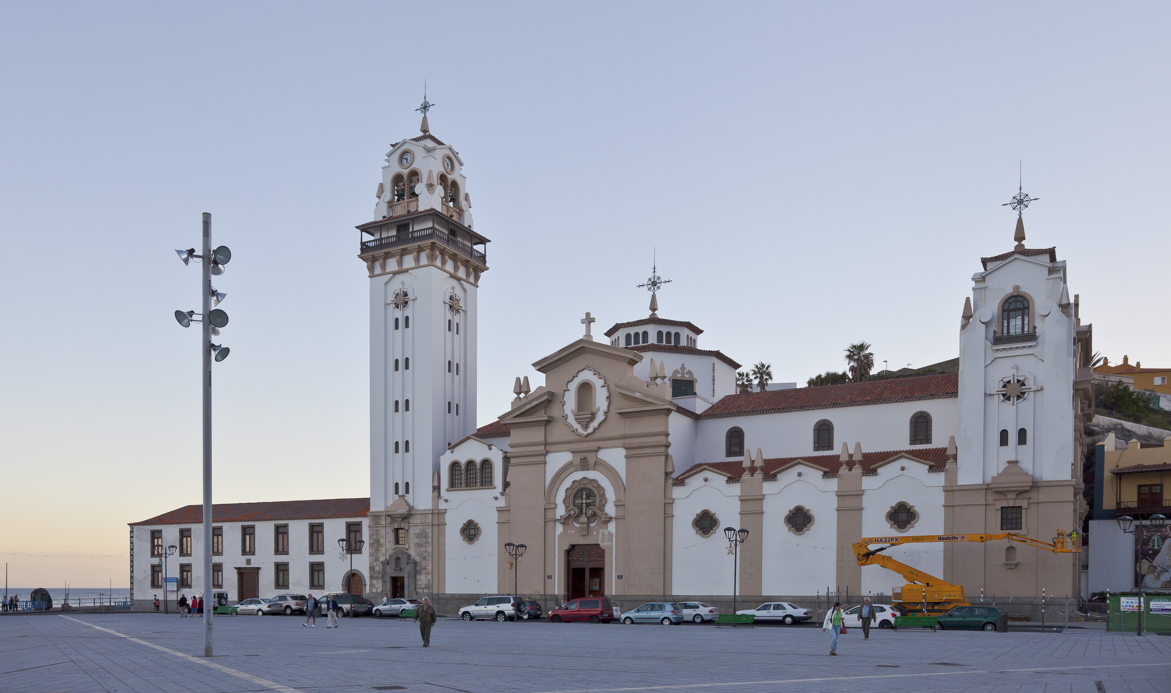 Basilica of Nuestra Señora de la Candelaria, Candelaria, Tenerife, Spain